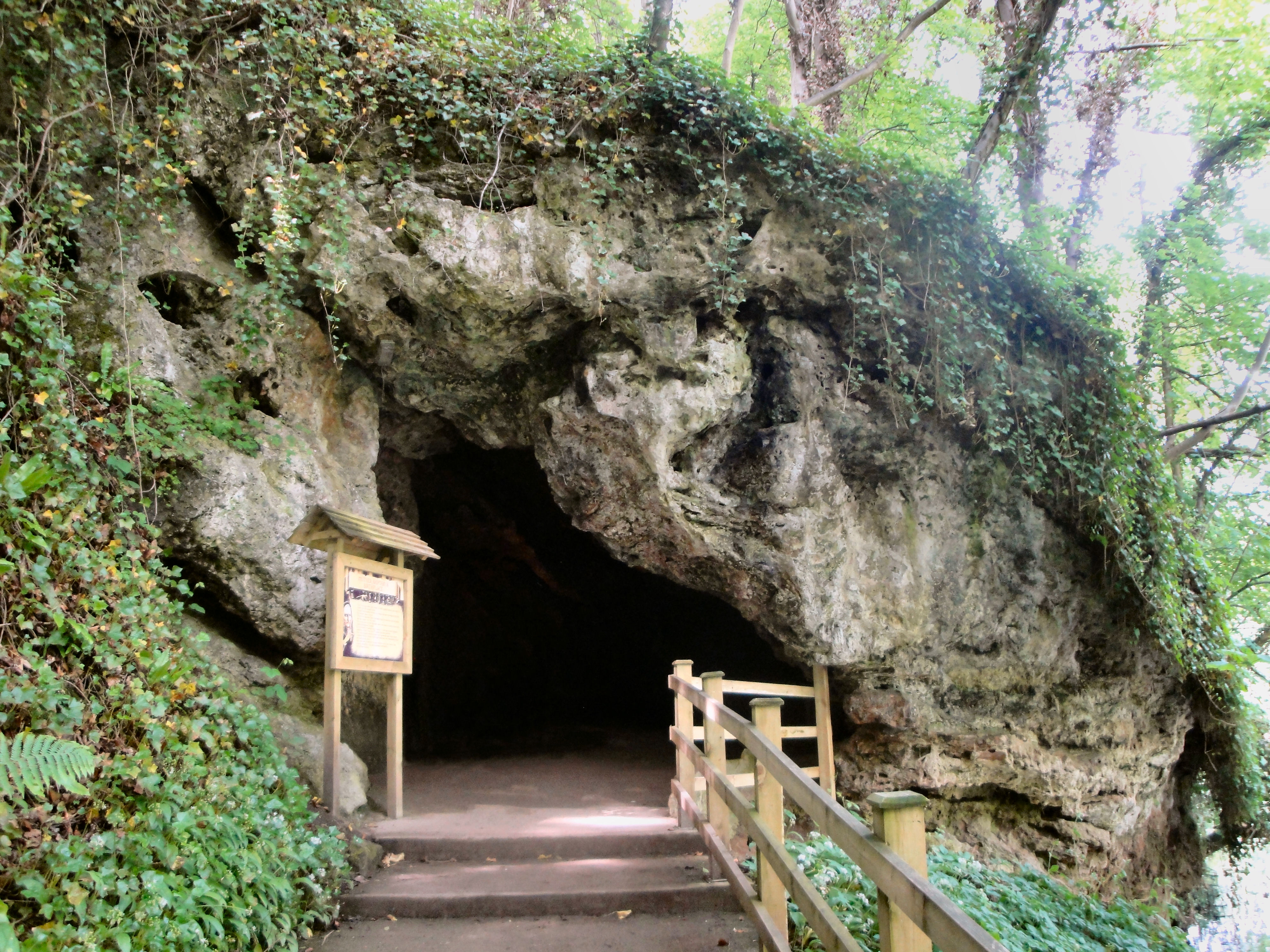 The entrance to the cave in Knaresborough in which according to legend Mother Shipton was born.